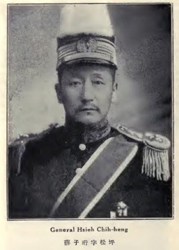 Xue Ziheng (？-？)